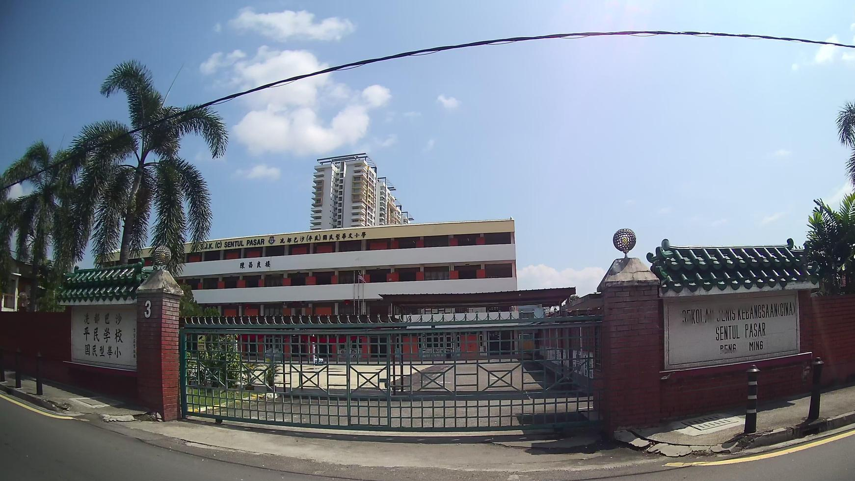 SJK (C) Sentul Pasar